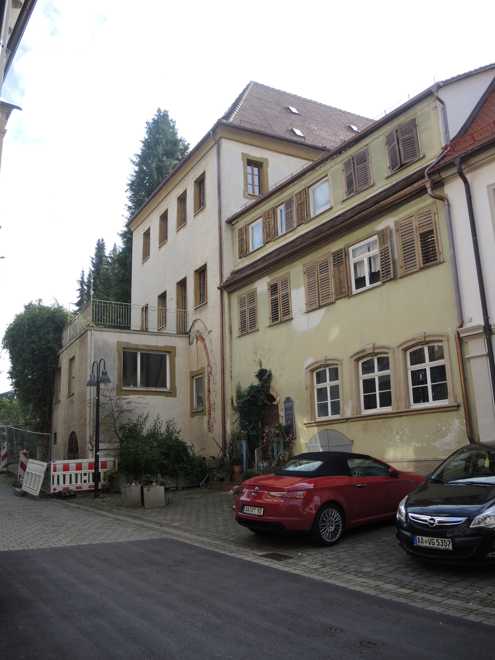 Imhofstraße No. 9 and 11 in Schwaebisch Gmuend